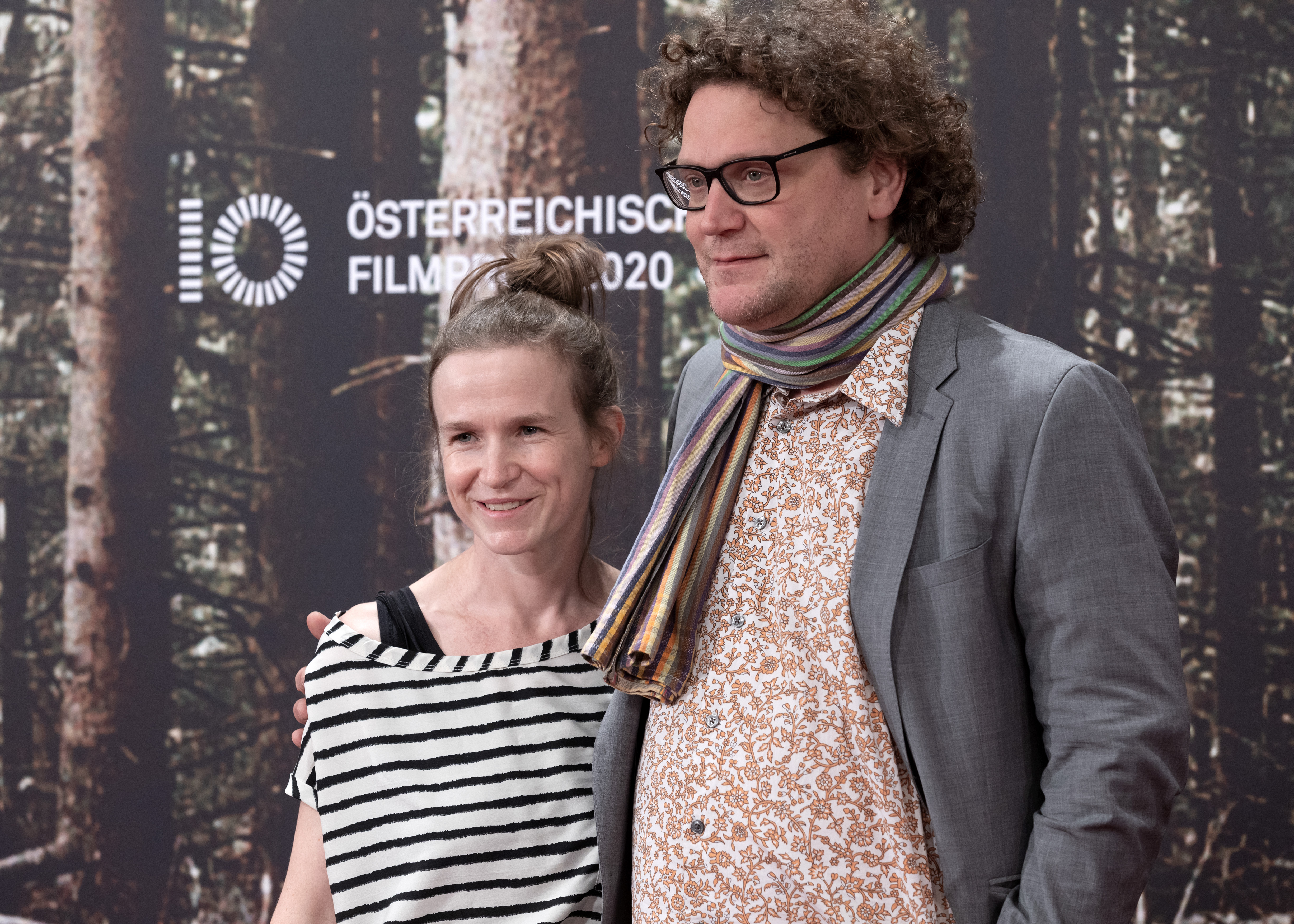 Sabine Moser and Oliver Neumann (producers Joy) at the award ceremony of the Austrian Film Awards 2020 (Auditorium Grafenegg at Grafenegg Castle, Lower Austria,Austria).